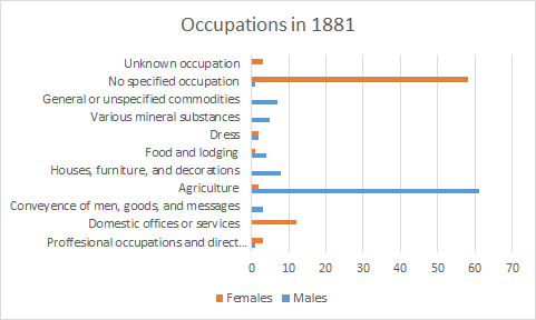 Occupations in Great Moutlon according to 1881 cencus data